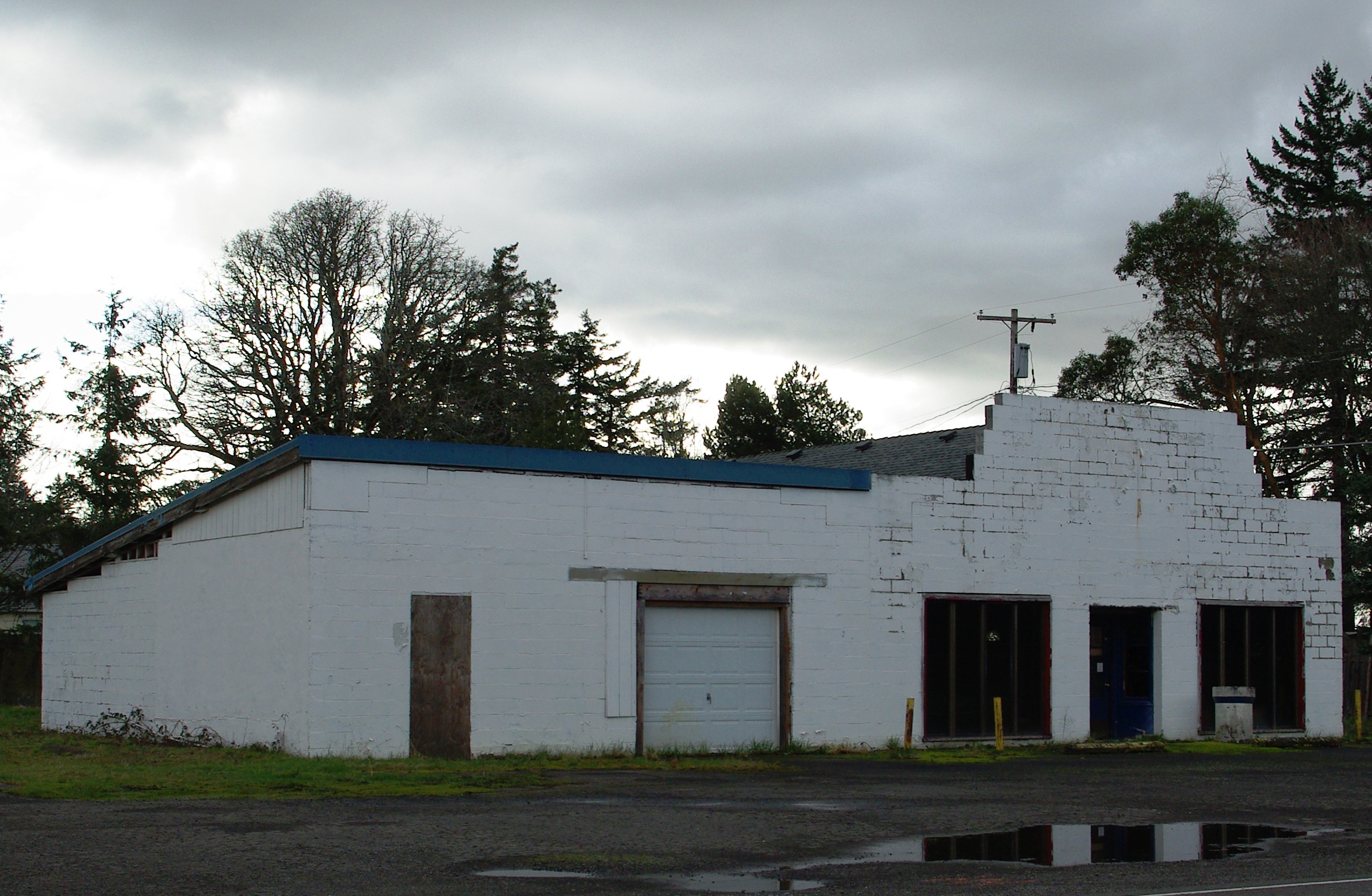 Former commercial building, now vacant, in Bonny Slope, Oregon.